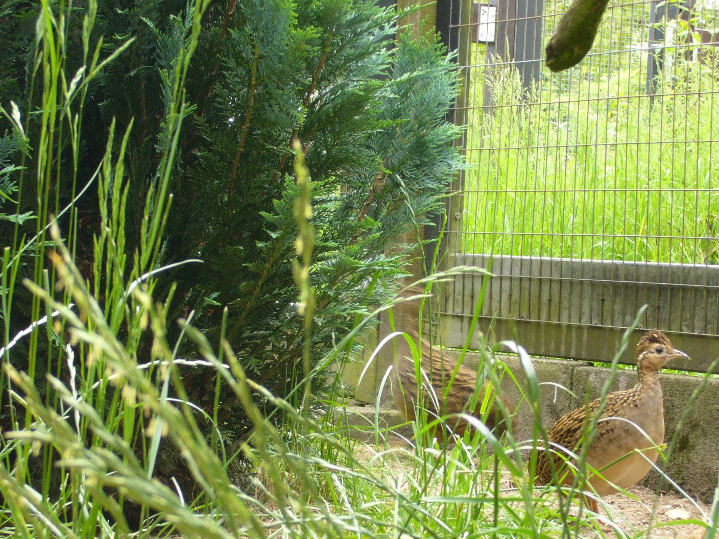 Picture of Nothoprocta perdicaria